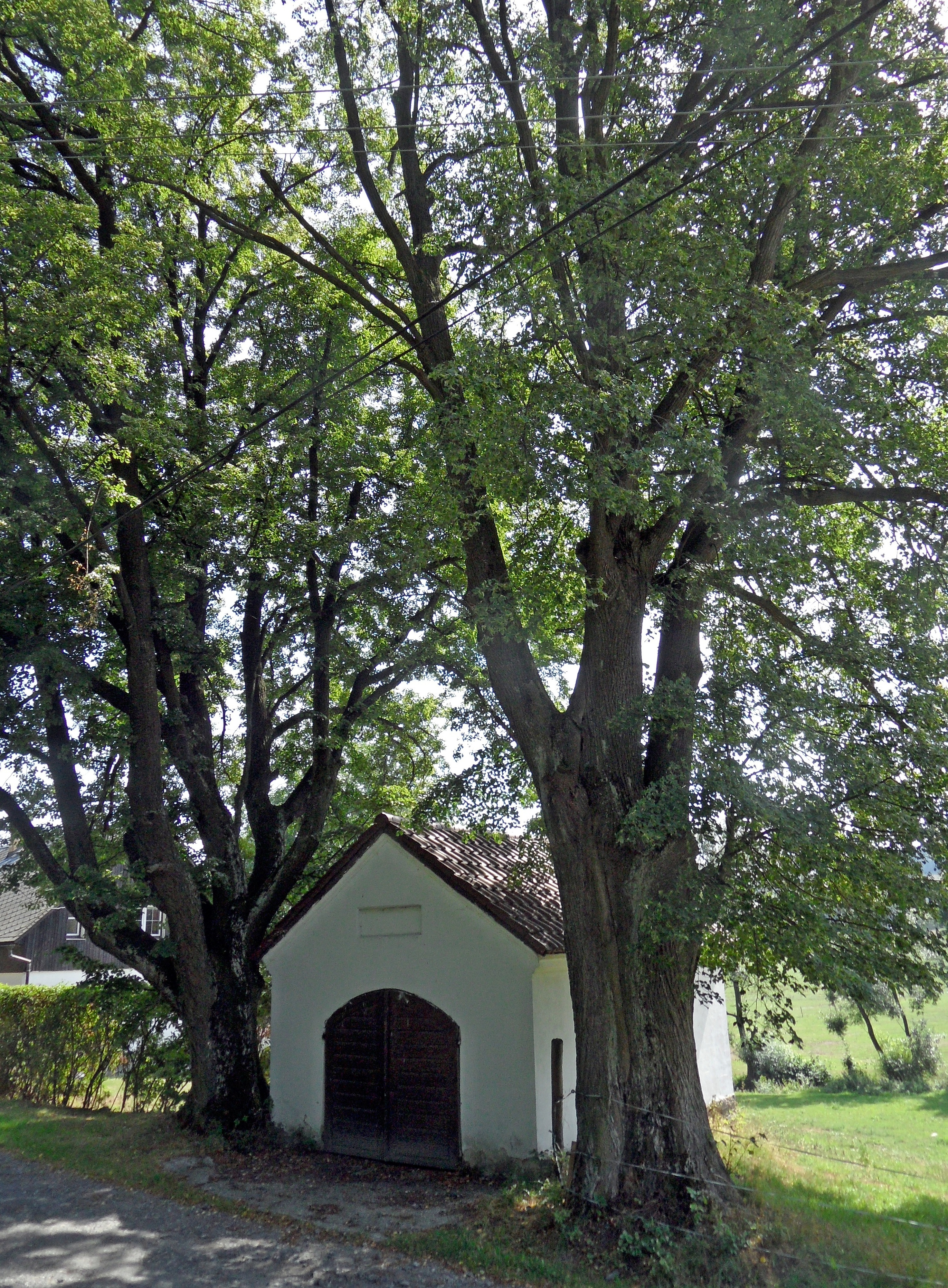 Vojtovice J. Building Surrounded by Big Trees. Jeseník District, the Czech Republic.